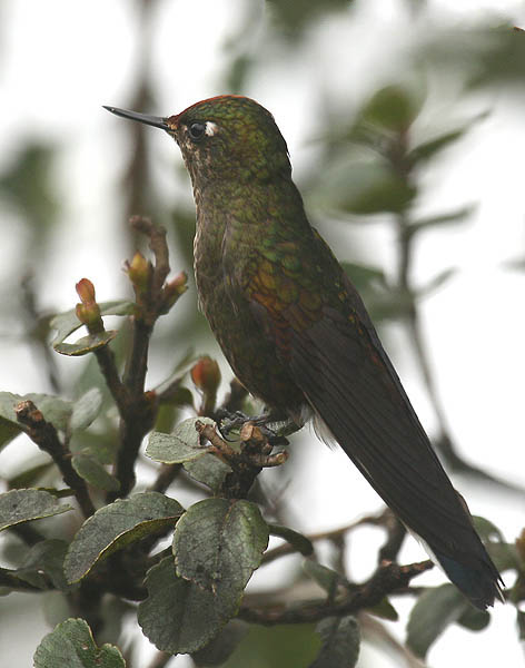 Rainbow-bearded Thornbill (Chalcostigma herrani). A female at Yanacocha Reserve, NW Ecuador.